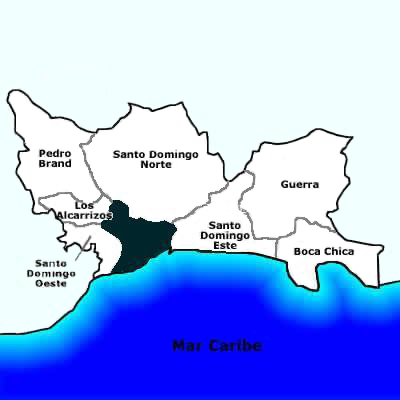 Municipalities of Santo Domingo Province.